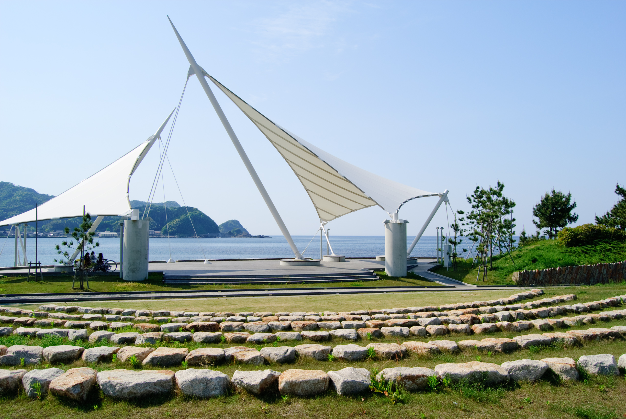 Siokaze Koen in Kami ,Hyogo Prefecture,Japan.